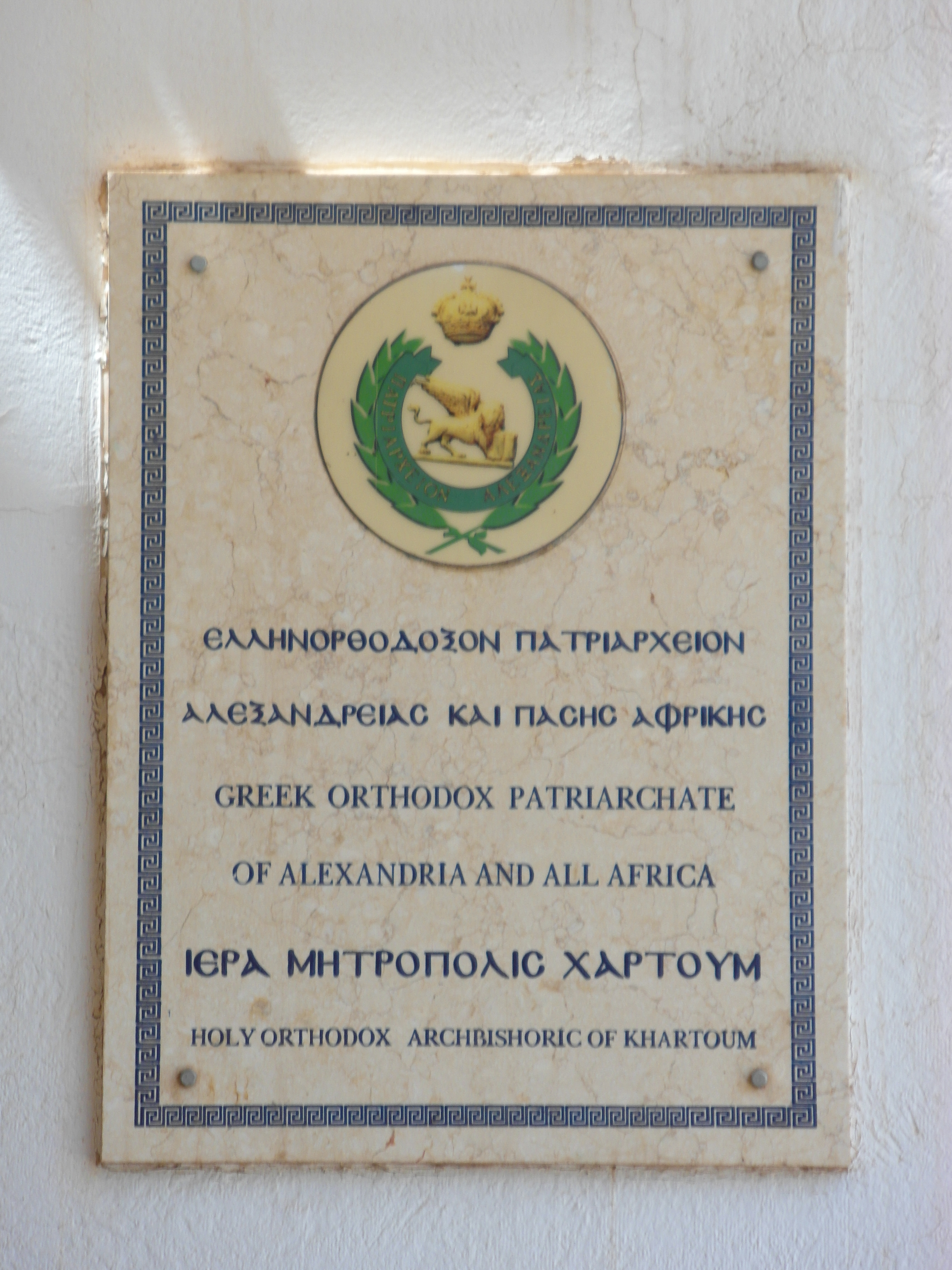 Official sign at the office of the Greek Orthodox Patriarchate in Khartoum, Sudan